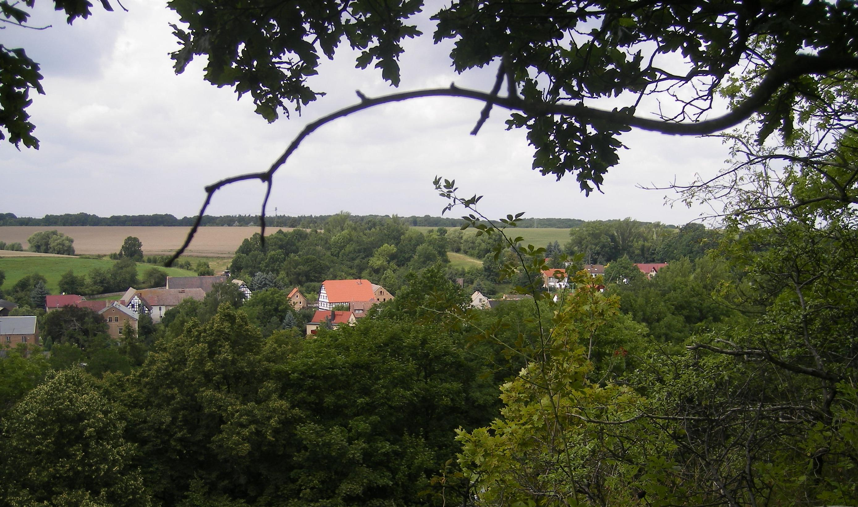 The village Paditz as a district of Altenburg/Thuringia in Germany.